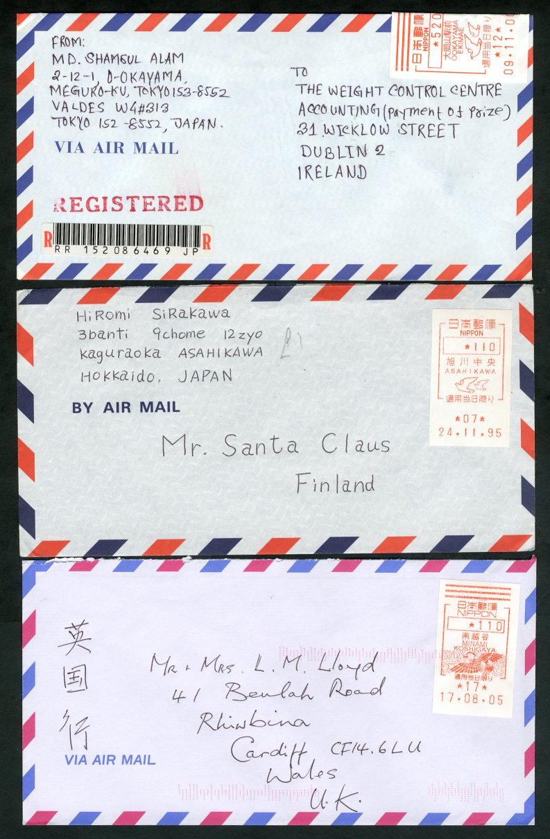 Japanese airmail meter stamped covers.